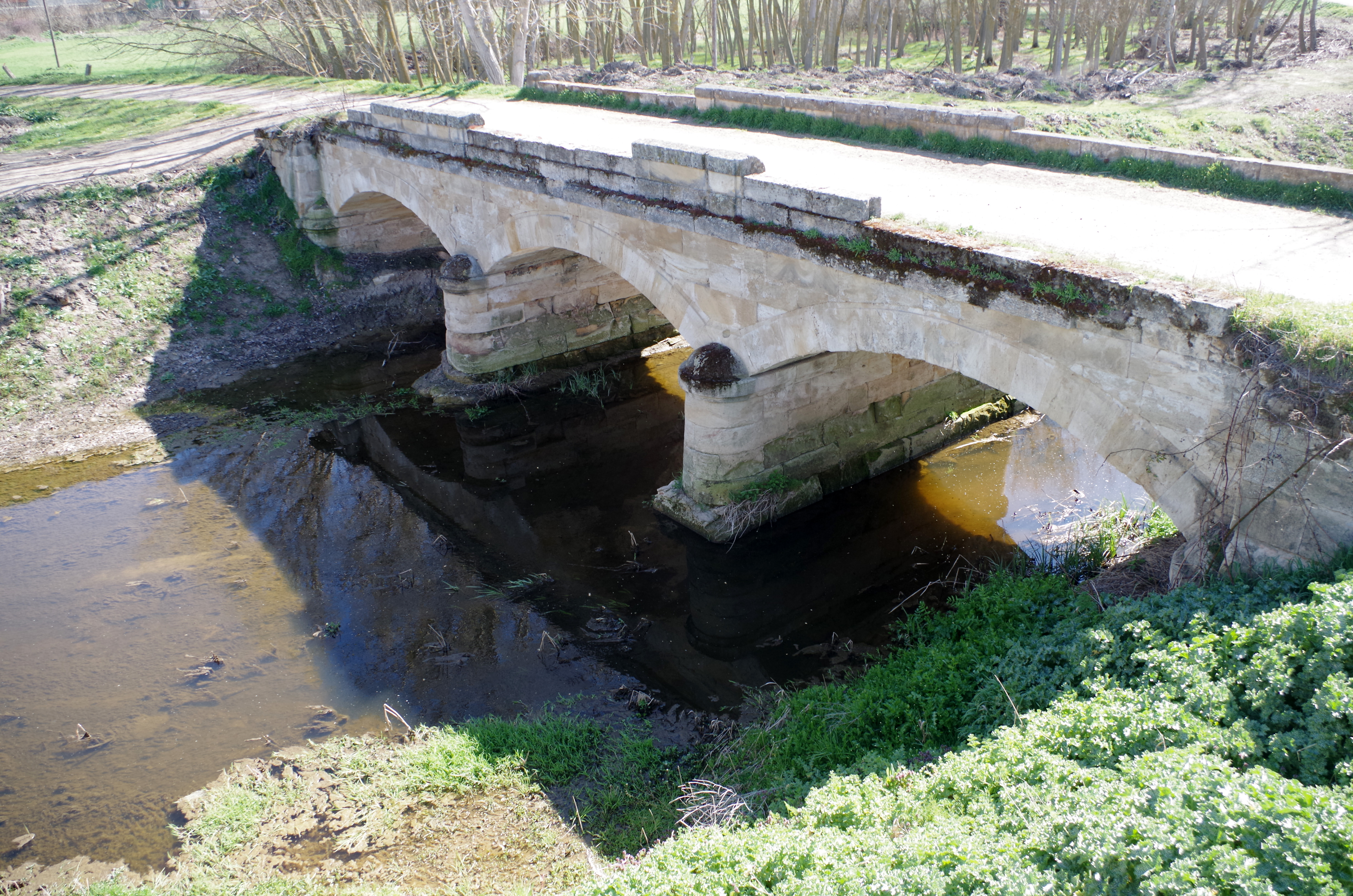 Bridge over river Guareña in Vallesa de la Guareña (Zamora, Spain).